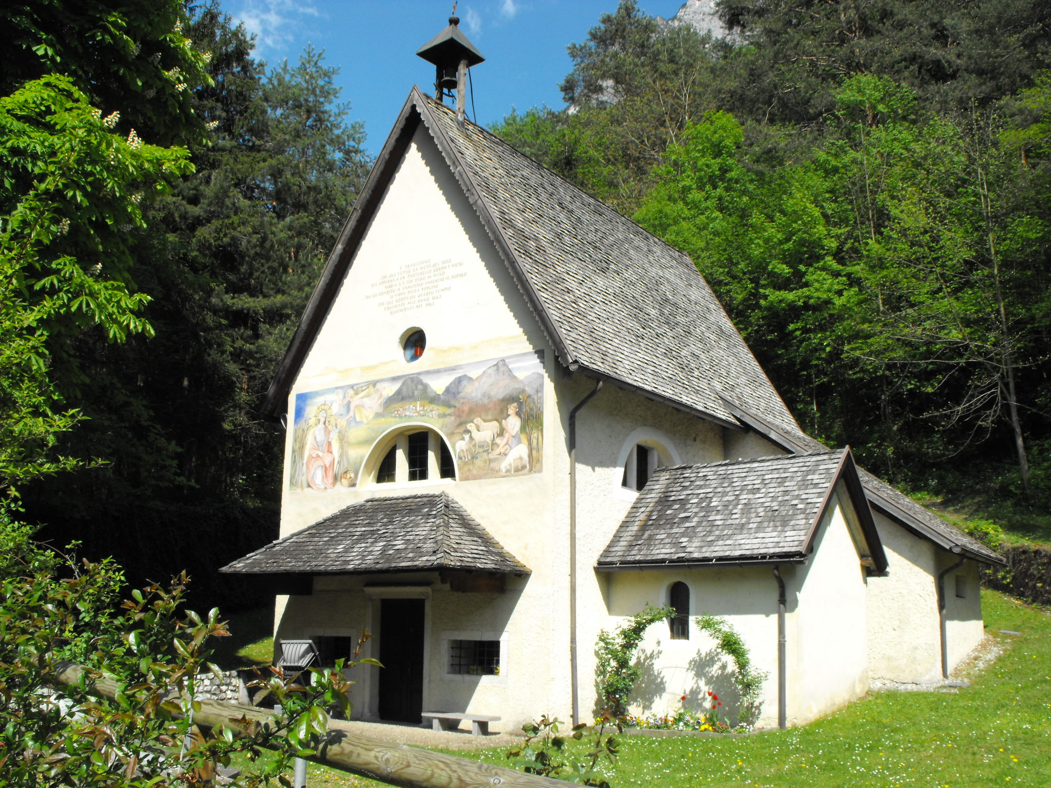 Church of "Madonna della Rocchetta", Ospedaletto, Trentino-South Tirol (Italy)